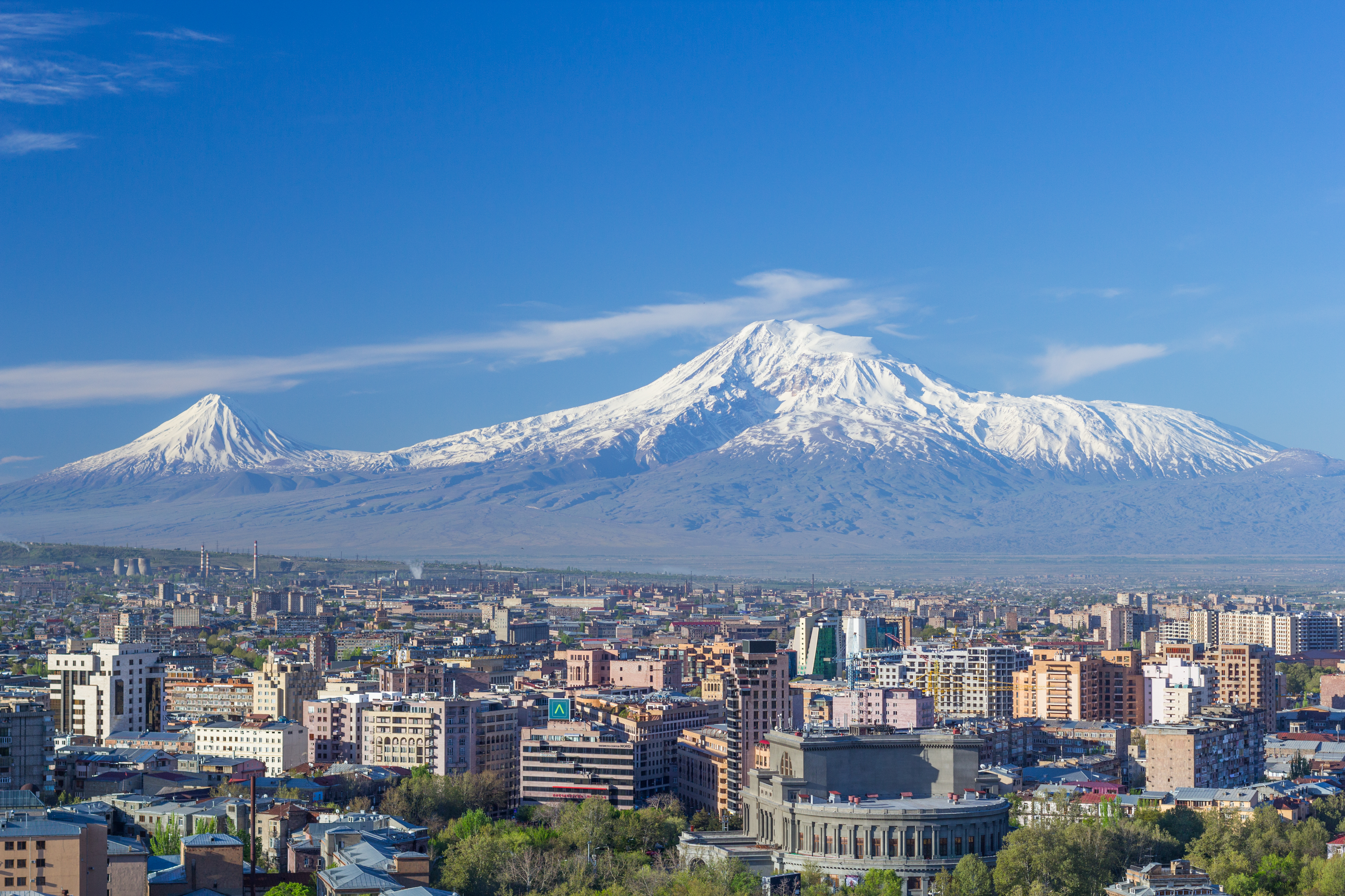 Mount Ararat and the Yerevan skyline in spring. The Opera house is visible in the bottom right.